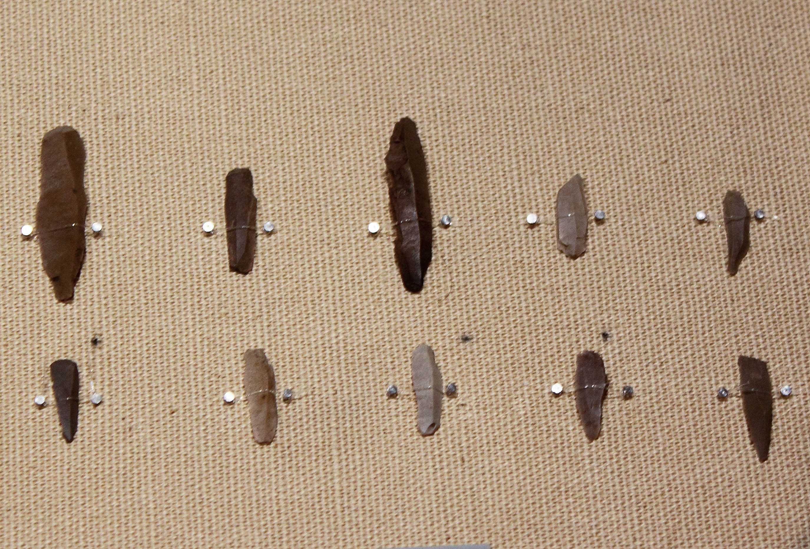 Microliths. 18 000 BP. The Niigata excavation. Tokyo National Museum